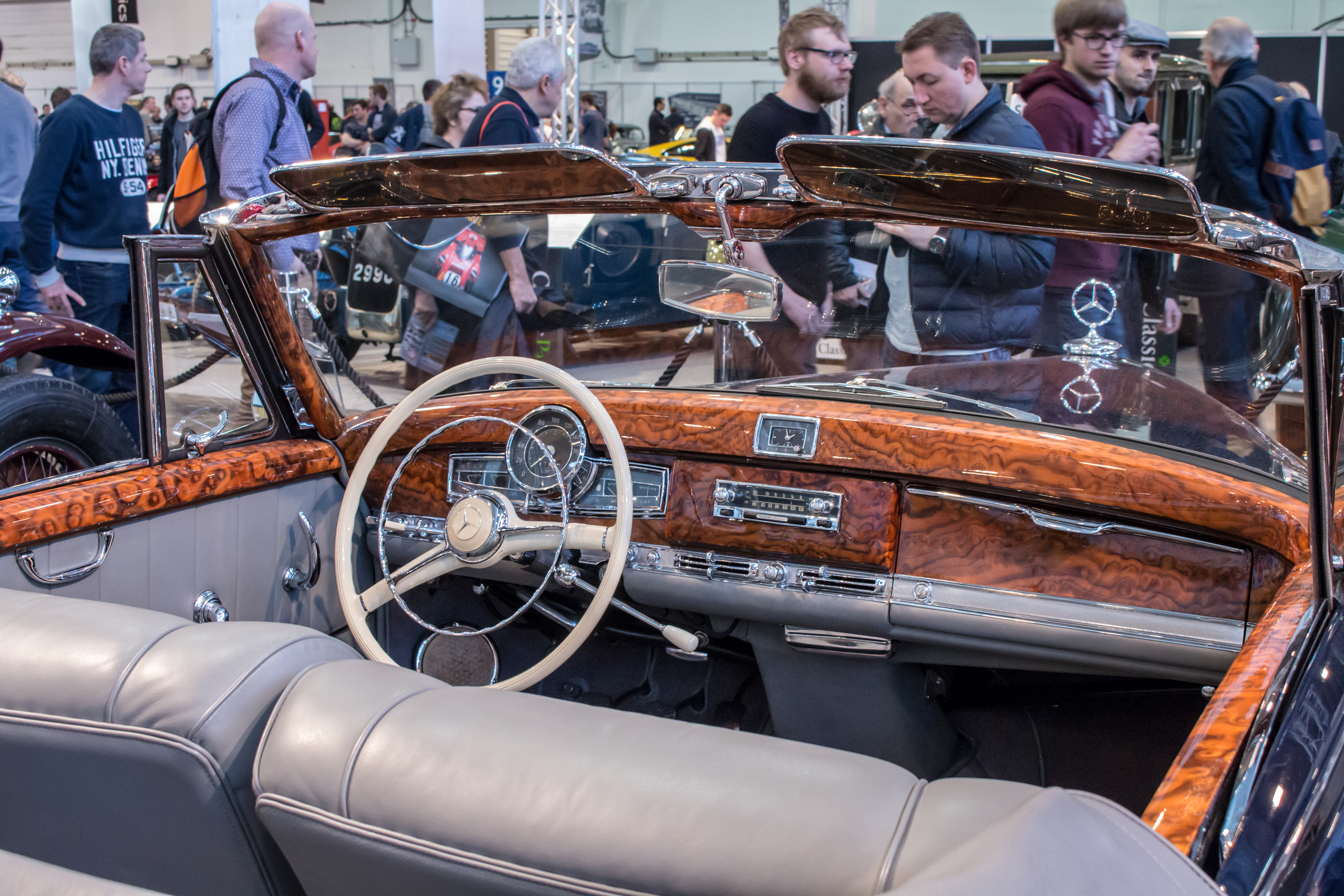 Mercedes-Benz, Techno-Classica 2018, Essen